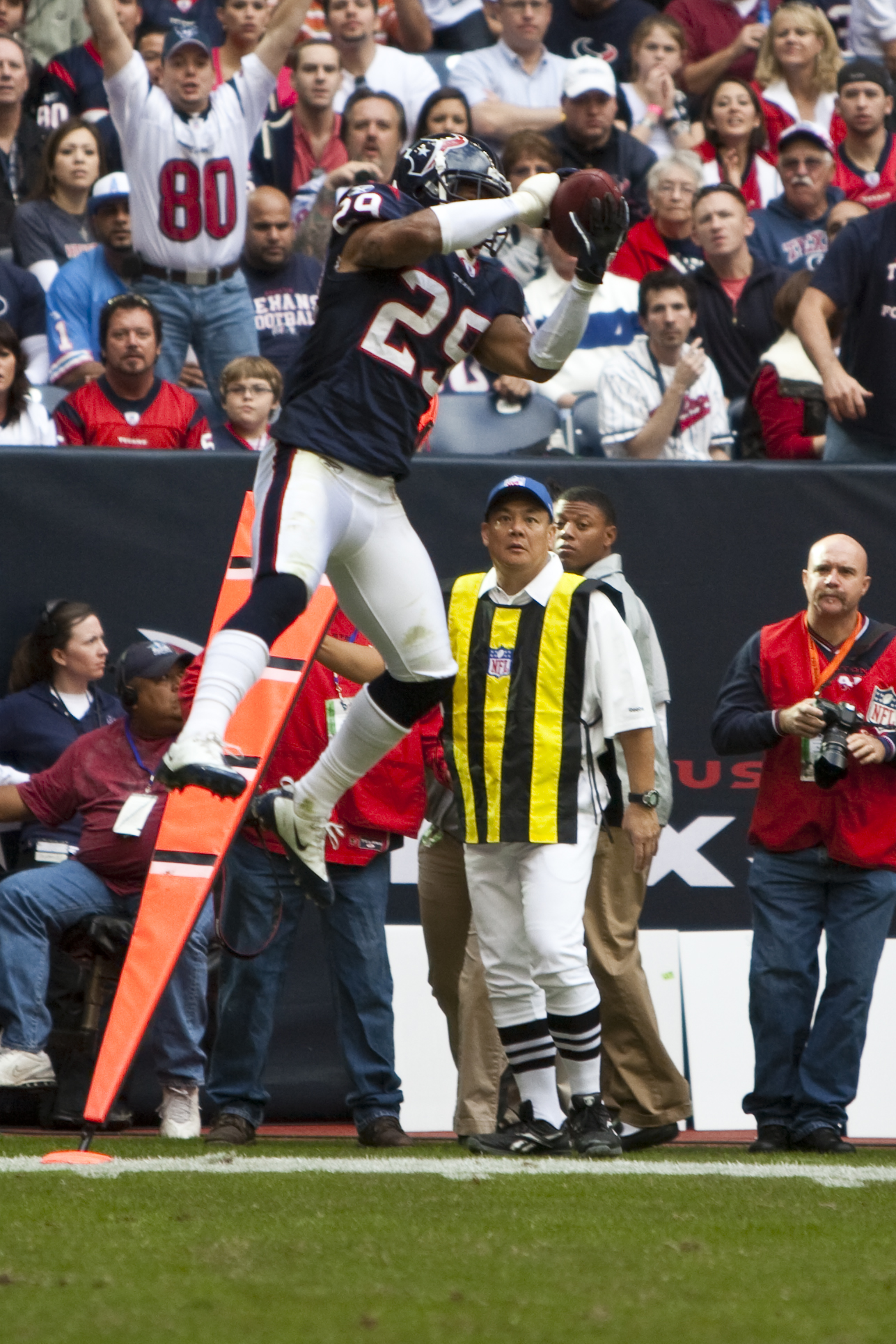 Houston Texans cornerback Kareem Jackson intercepts a pass against the Tennessee Titans.